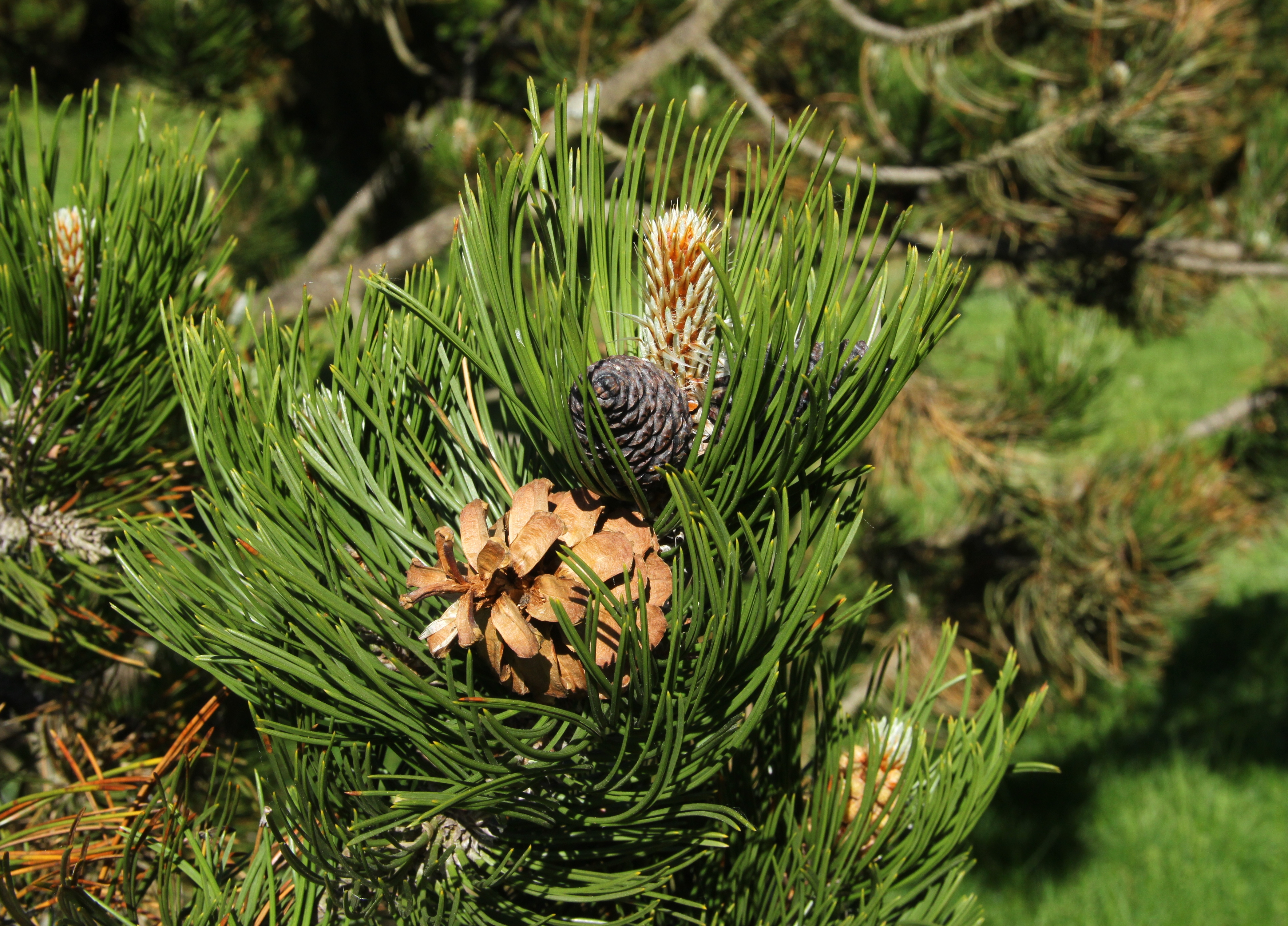 Female cones and young shots of Bosnian pine (Pinus heldreichii) in PAN Botanical Garden in Warsaw, Poland